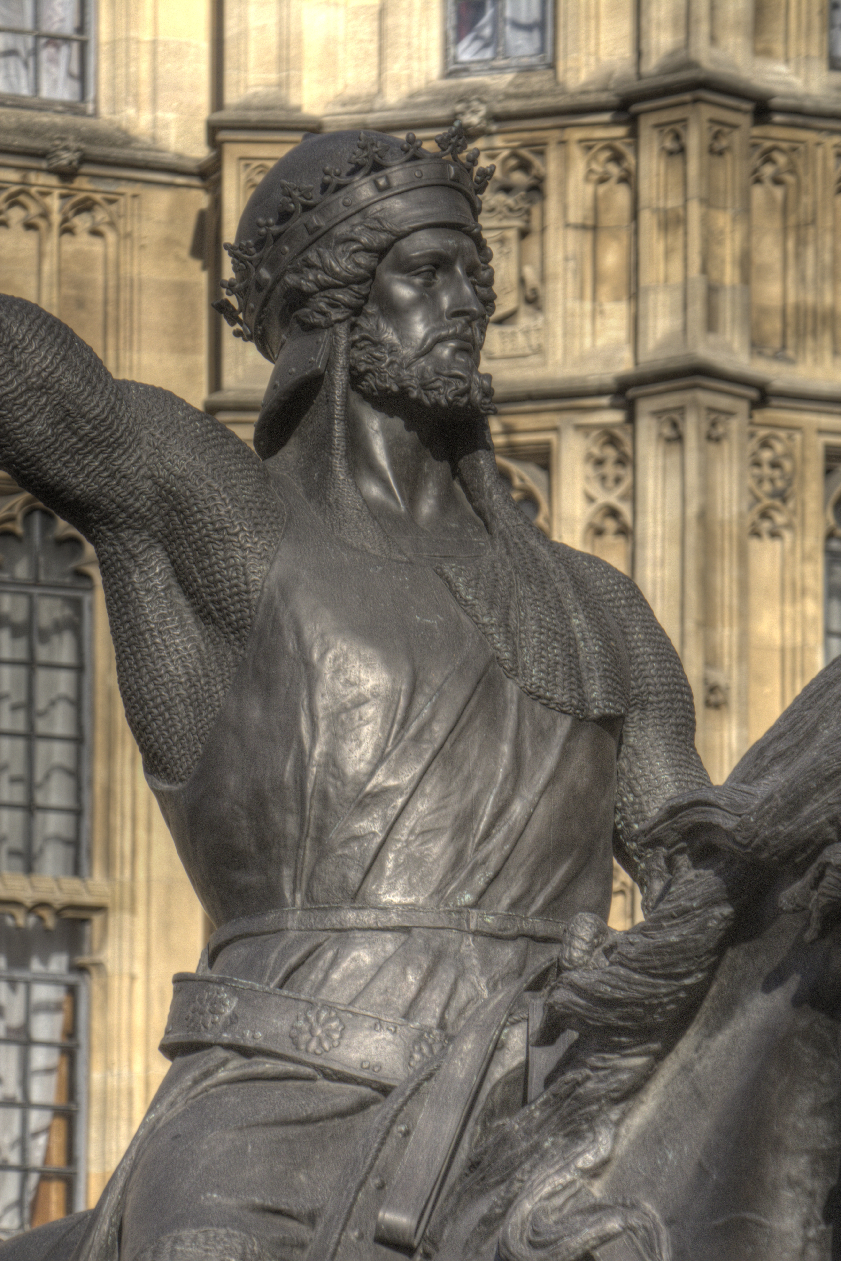 Statue of Richard I, Westminster - close-up